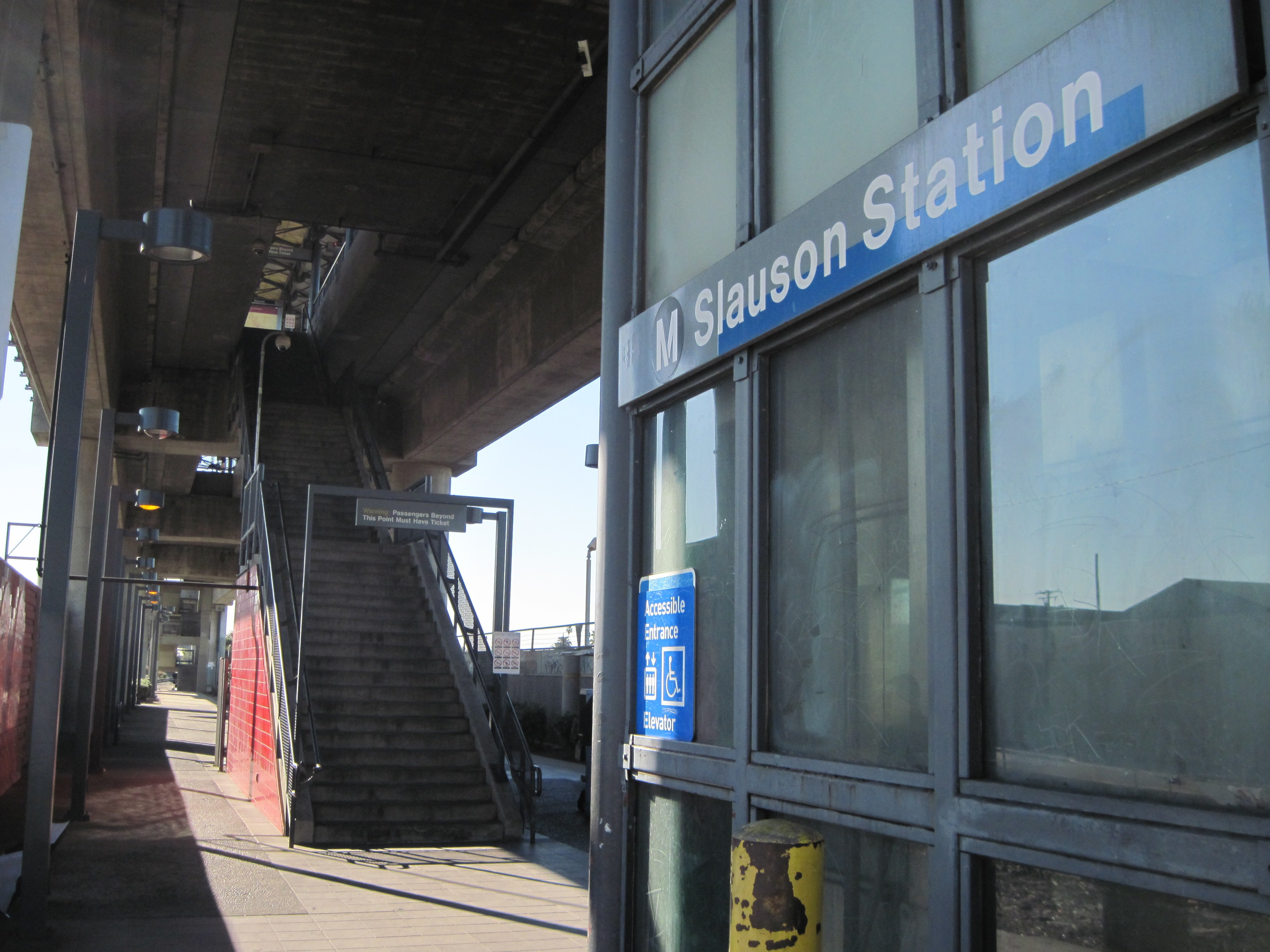 The Los Angeles County Metropolitan Transportation Authority's Slauson station, an elevated station serving the Metro Blue Line in Los Angeles, California, USA.